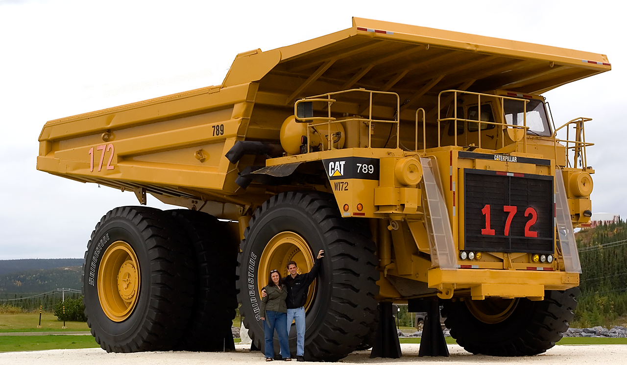 Truck 172 from Mont-Wright mine, on display in Fermont, QC, Canada. This truck had the world record for number of hours of service in 2006.